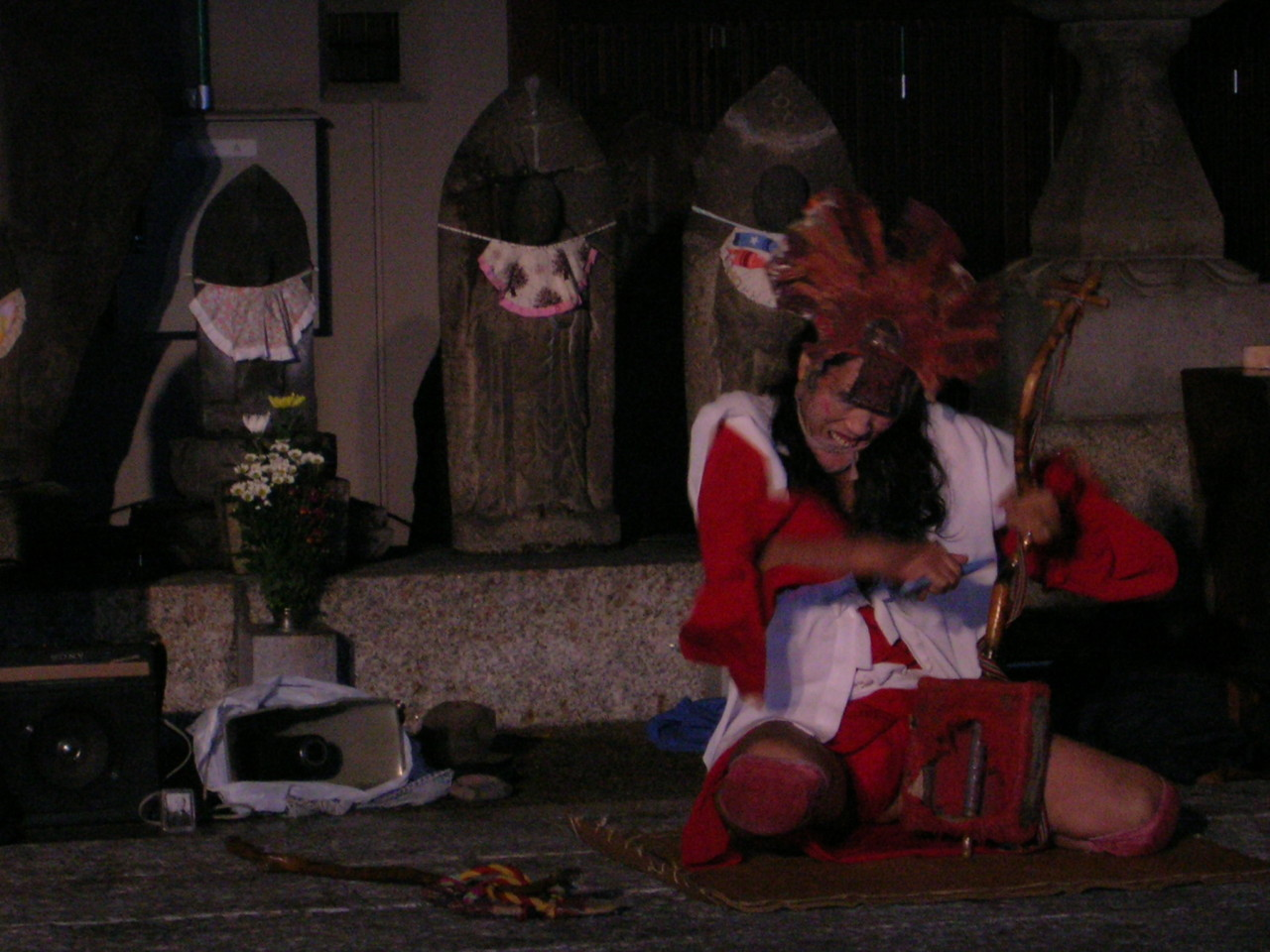 Gilyak Amagasaki, Osu Daidoh Chonin Matsuri. Loc: Osu, Naka ward, Nagoya city, Aichi Prefecture, Japan 大須大道町人祭で「じょんがら一代」を踊るギリヤーク尼ヶ崎。 撮影場所 愛知県名古屋市中区大須